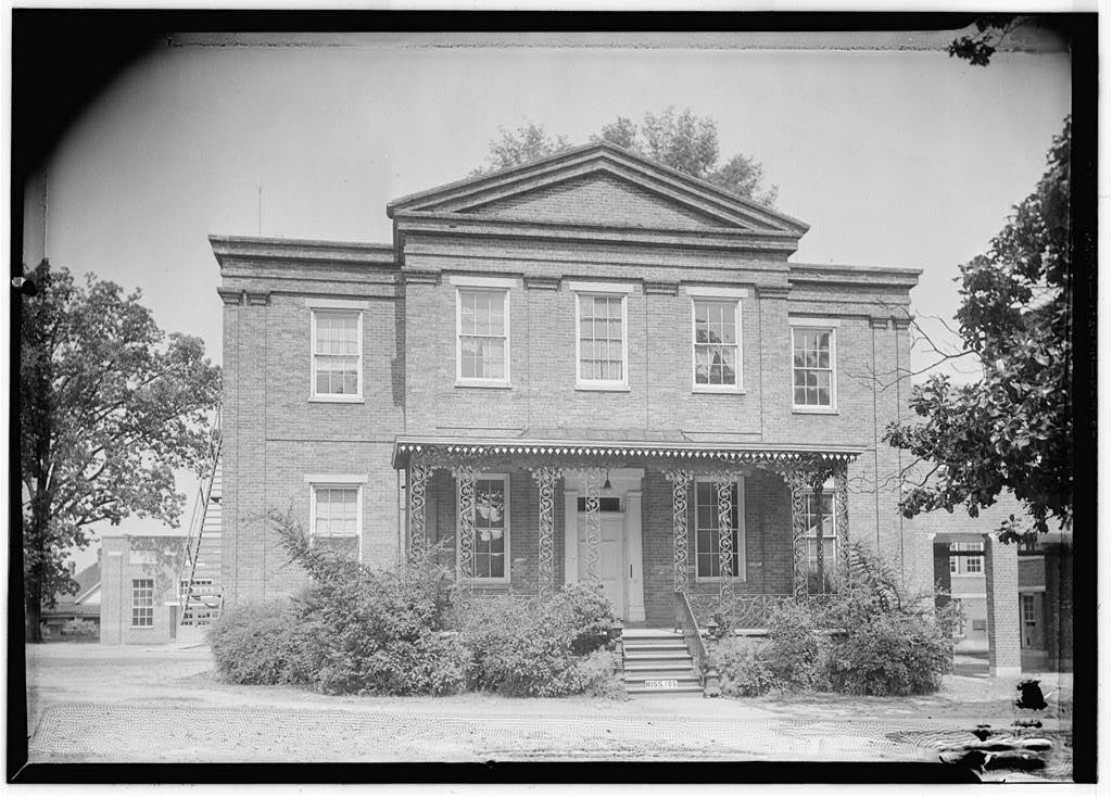 Title: General Steven D. Lee House, Columbus, Lowndes, MS Creator(s): Historic American Buildings Survey, creator Related Names: Blewett, Thomas Medium: Photo(s): 2 (5 x 7 in.) Data Page(s): 1 plus cover page Reproduction Number: [See Call Number] Call Number: HABS MISS,44-COLUM,16- Repository: Library of Congress, Prints and Photographs Division, Washington, D.C. 20540 USA Notes: * Survey number HABS MS-105 * Building/structure dates: 1844 initial construction * National Register of Historic Places NRIS Number: 71000456 Subjects: * Georgian architectural elements * houses * schools * MISSISSIPPI--Lowndes--Columbus Collections: * Historic American Buildings Survey/Historic American Engineering Record/Historic American Landscapes Survey Part of: Historic American Buildings Survey (Library of Congress) Contents: Photograph caption(s) 1. Historic American Buildings Survey James Butters, Photographer June 18, 1936 FRONT (WEST ELEVATION) 2. Historic American Buildings Survey James Butters, Photographer June 18, 1936 REAR (NORTHEAST CORNER)